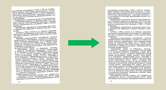 Deskew description